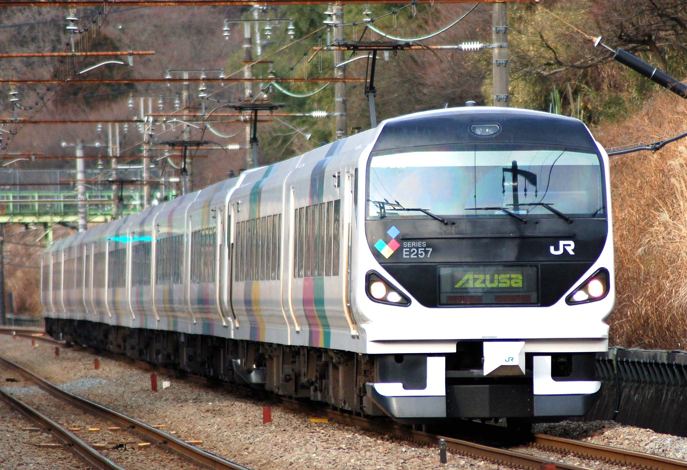 A JR East E257 series EMU on an Azusa limited express service